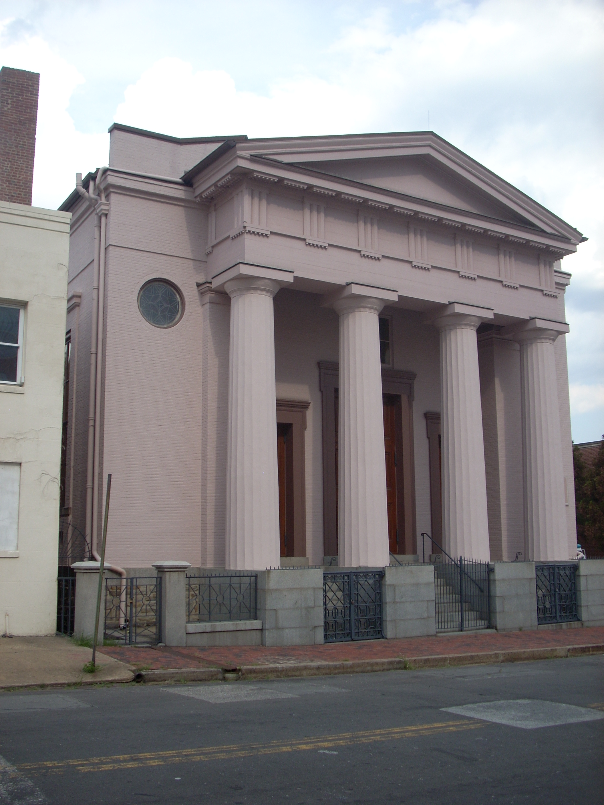 Lloyd Street Synagogue, 11 Lloyd St., Baltimore City, Maryland Object location39° 17′ 26″ N, 76° 36′ 05″ W